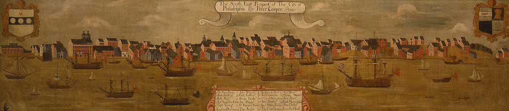 The South East Prospect of The City of Philadelphia